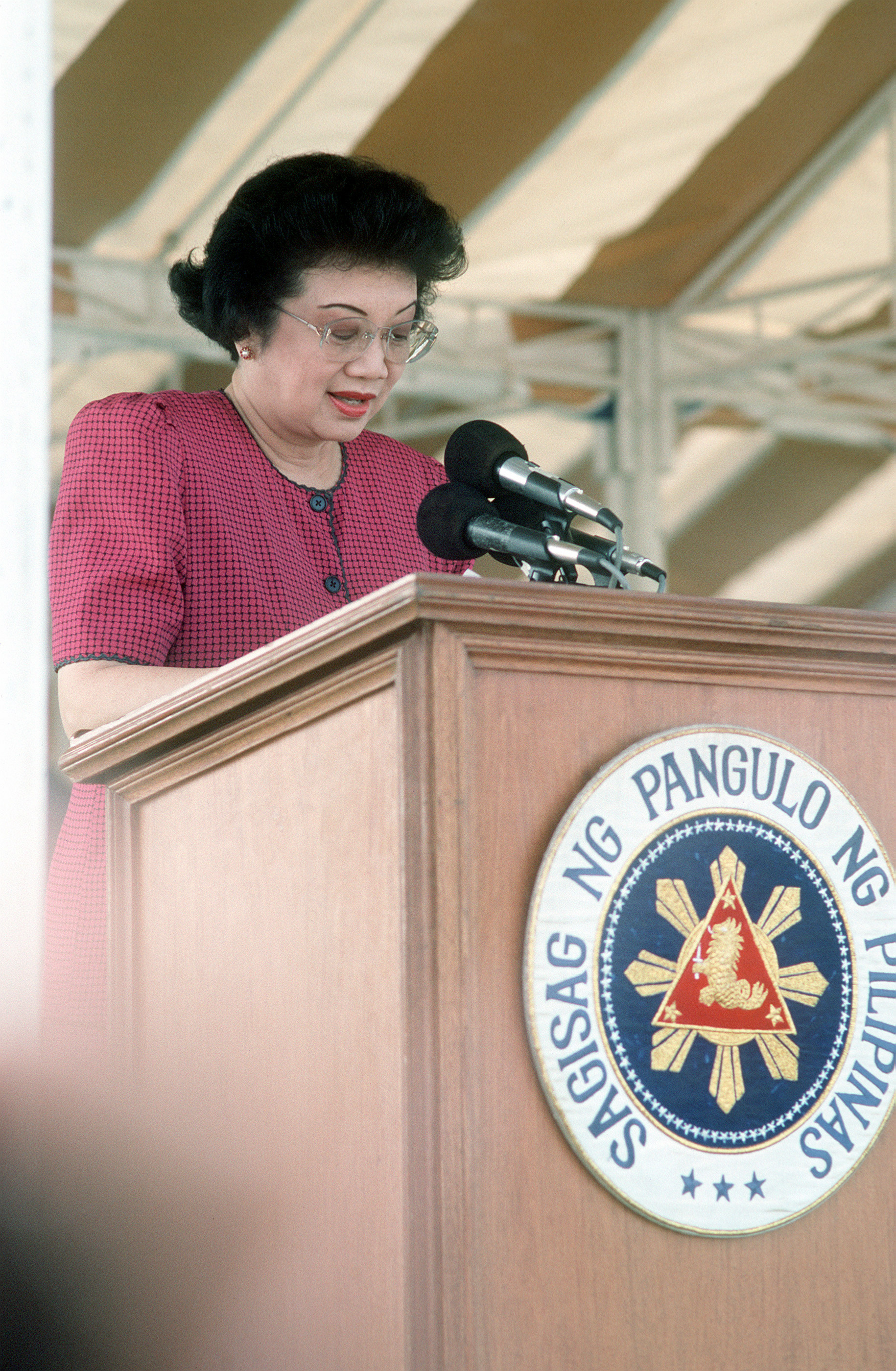 Philippine President Corazon Aquino addresses base workers at a rally at Remy Field concerning jobs for Filipino workers after the Americans withdraw from the U.S. facilities. (Released to Public)